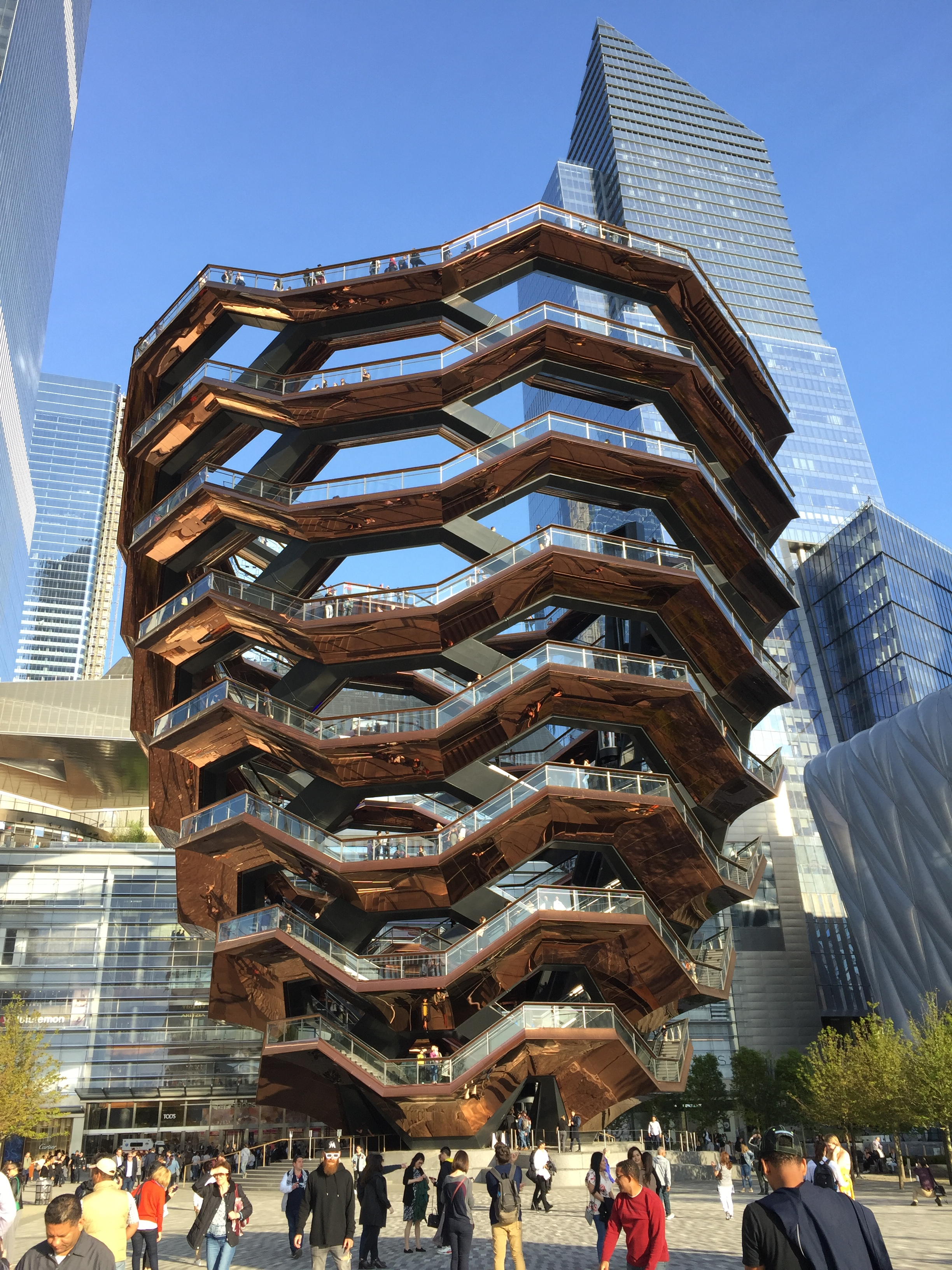 "Vessel" at Hudson Yards in 2019